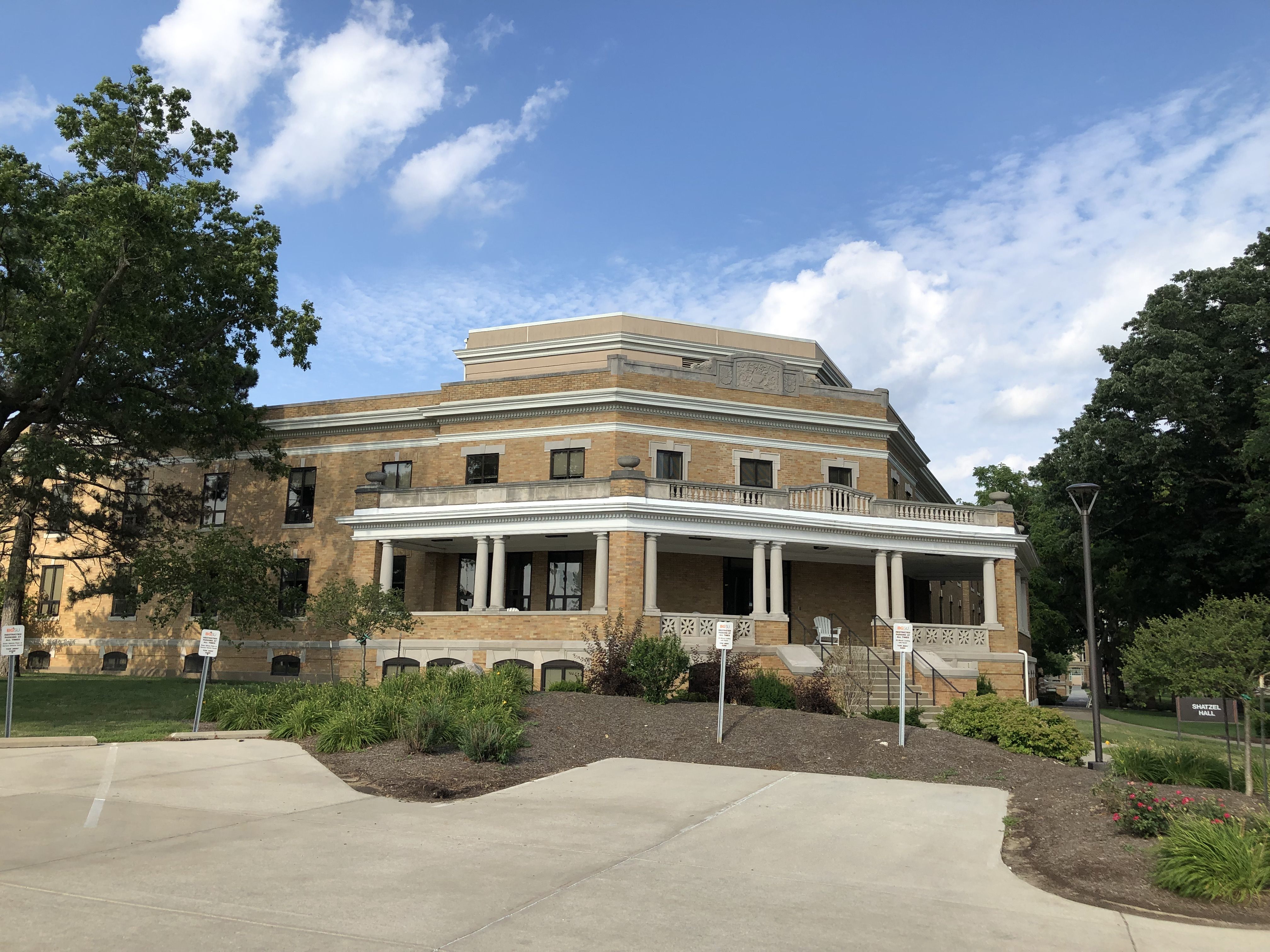 Shatzel Hall in the Summer